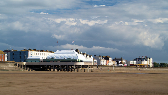 The pier Burnham-on-Sea